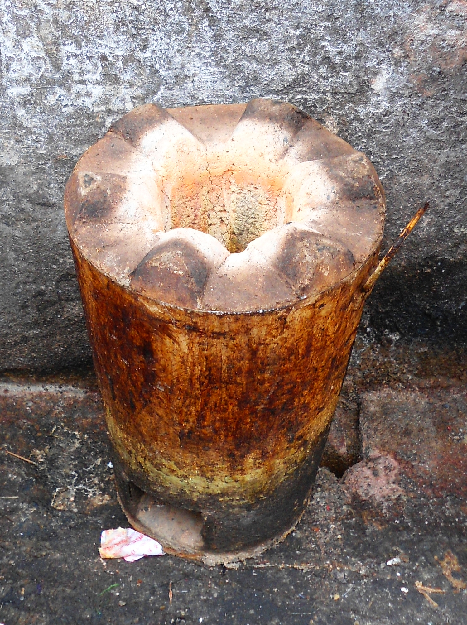 Burner for single mei (coal 煤) cylinder in Haikou City, Hainan Province, China.